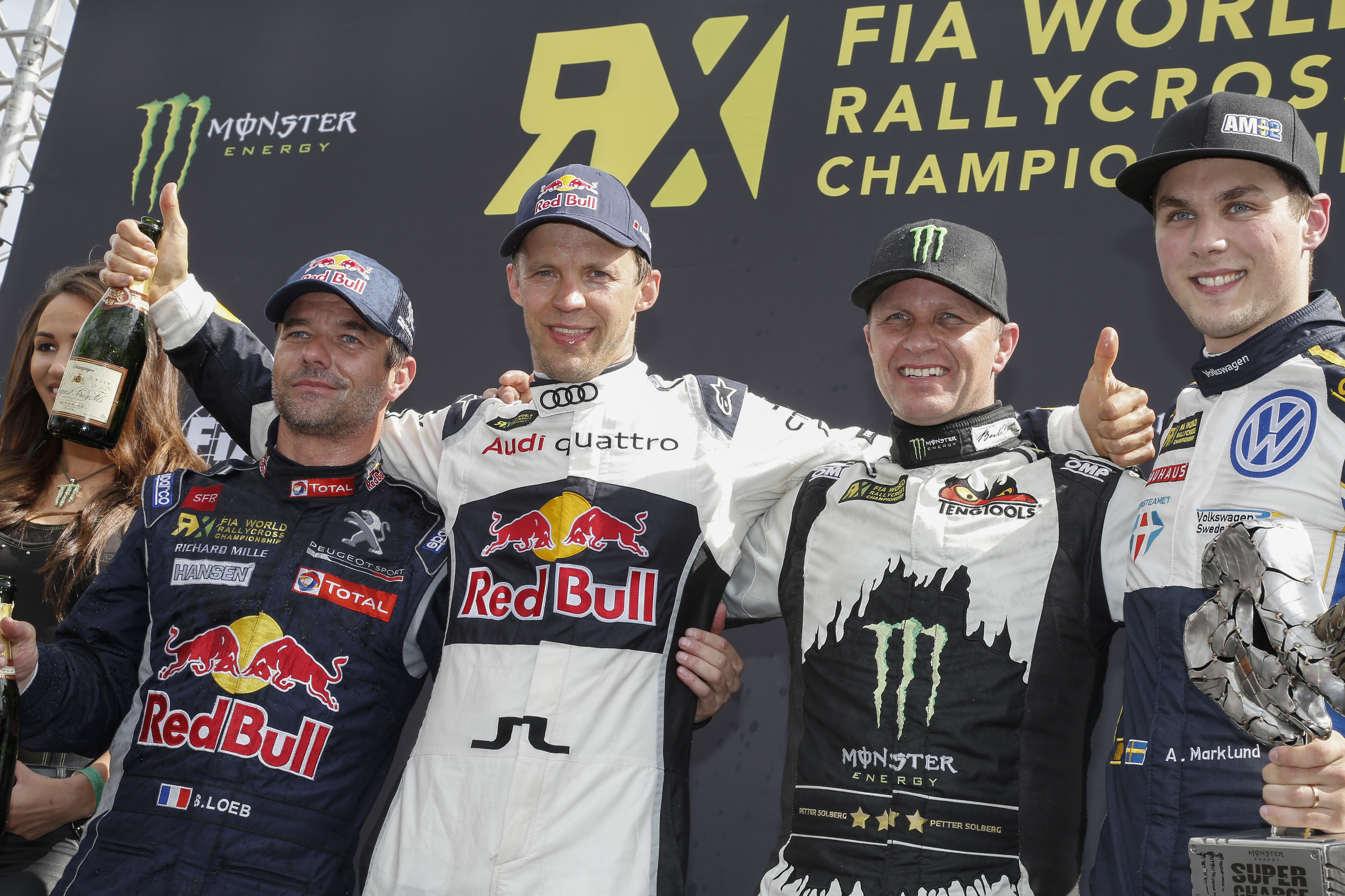 Worldwide Copyright: EKS/McKlein